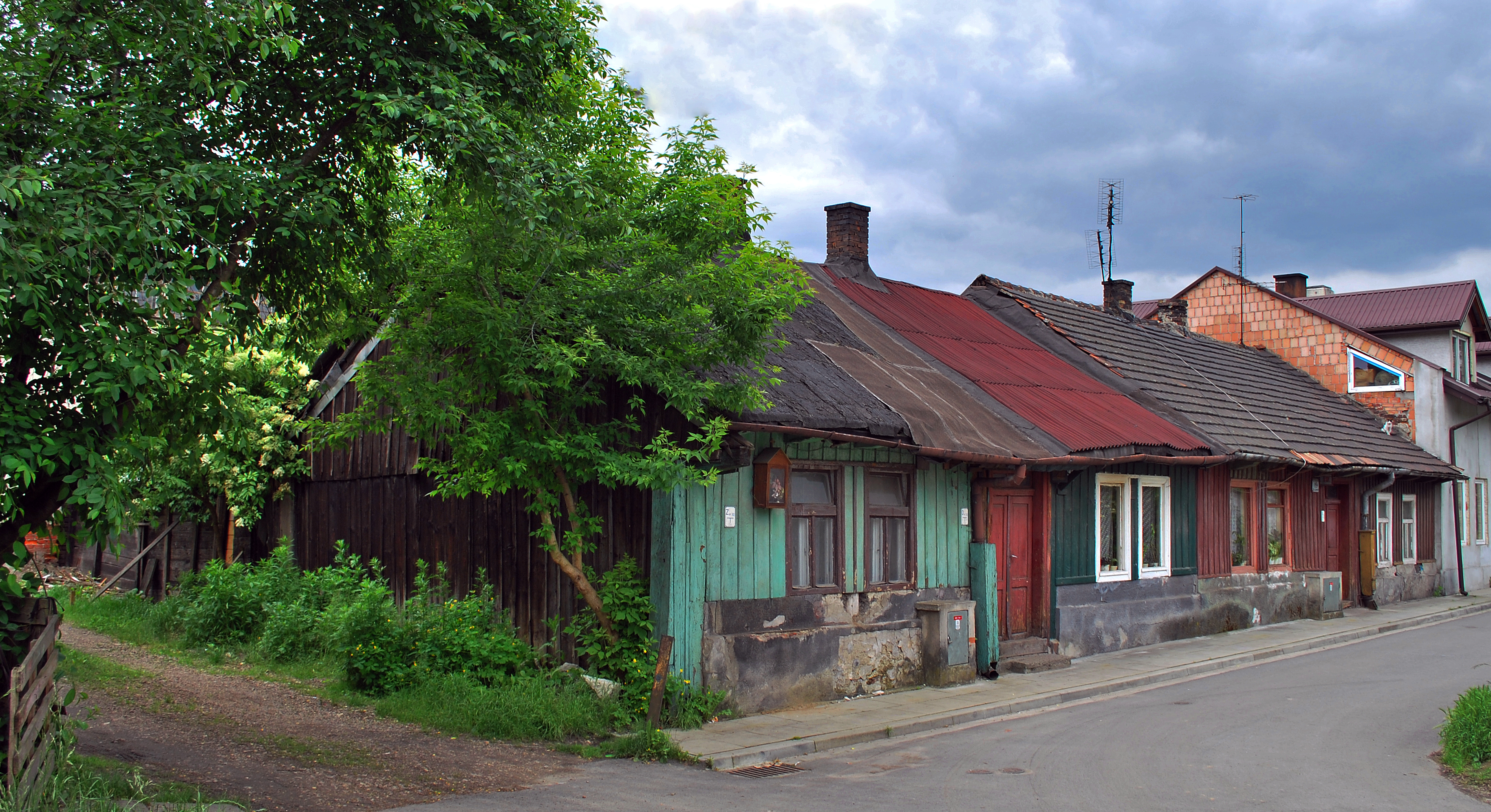 Old houses, Ludwinow (formerly IX quarter of a city), 21 and 19 Turecka street, Krakow, Poland